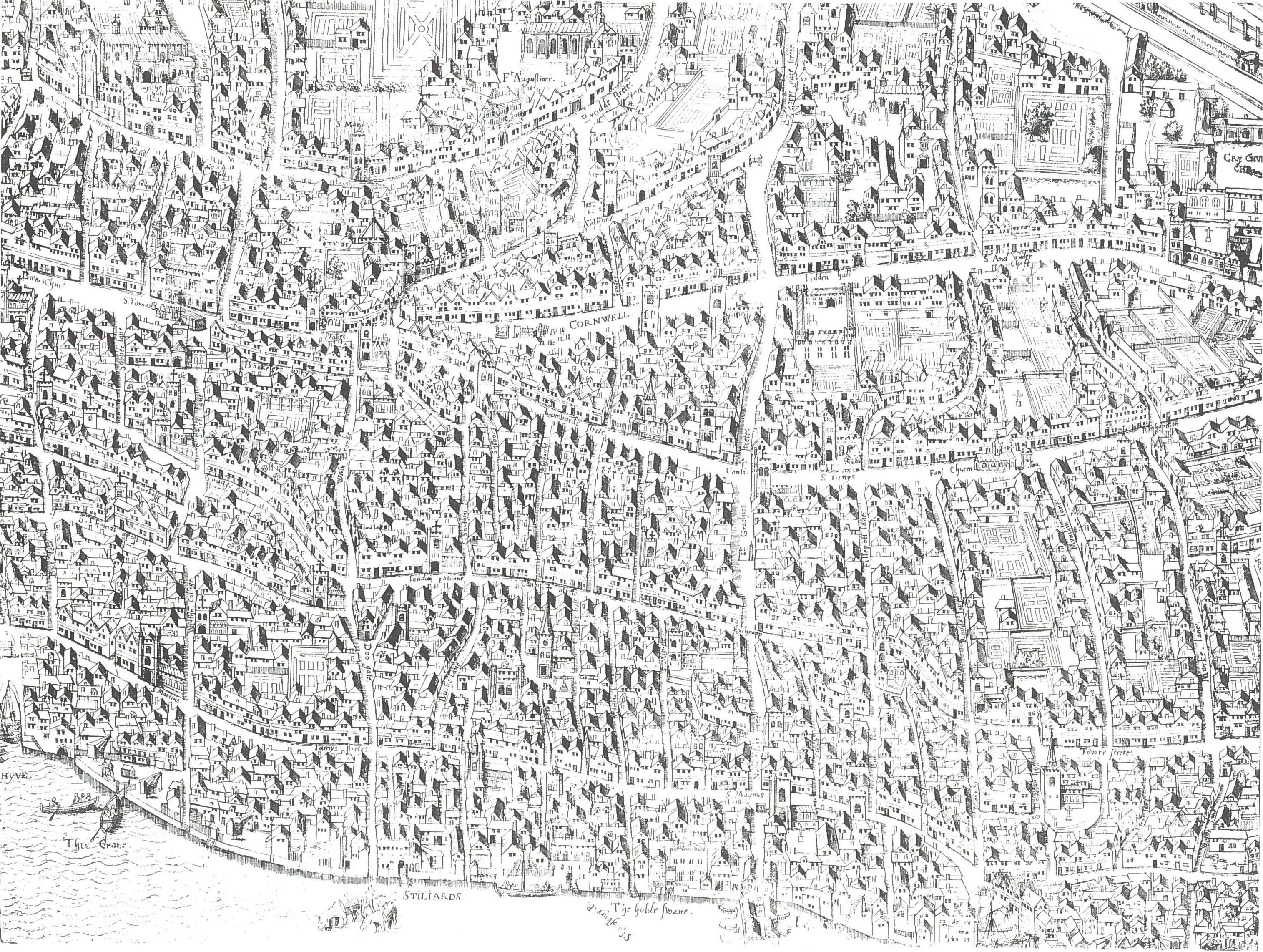 Plate from the "Copperplate" map of London, 1550s, showing the eastern City area